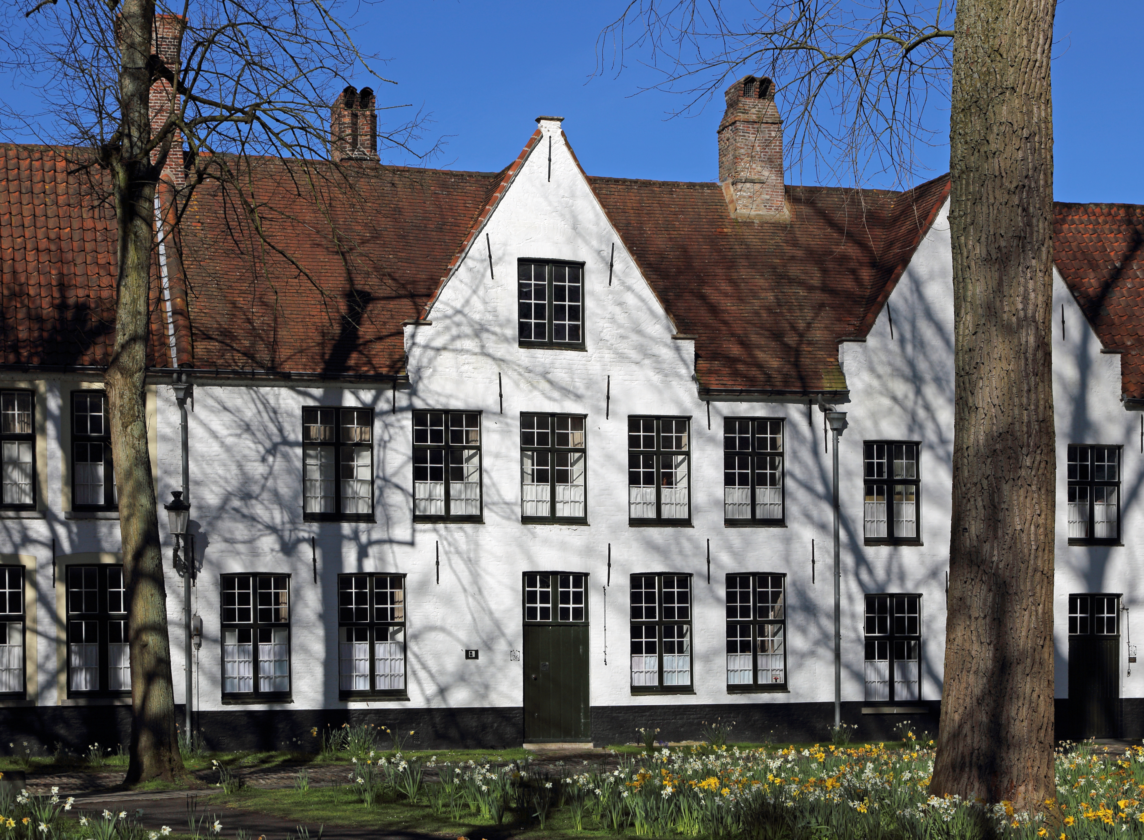 Bruges (Belgium): house Begijnhof 26